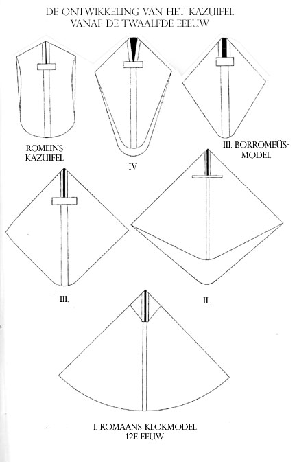 derivitive Own work by User:Broederhugo, based on notes from 1907 by Braun